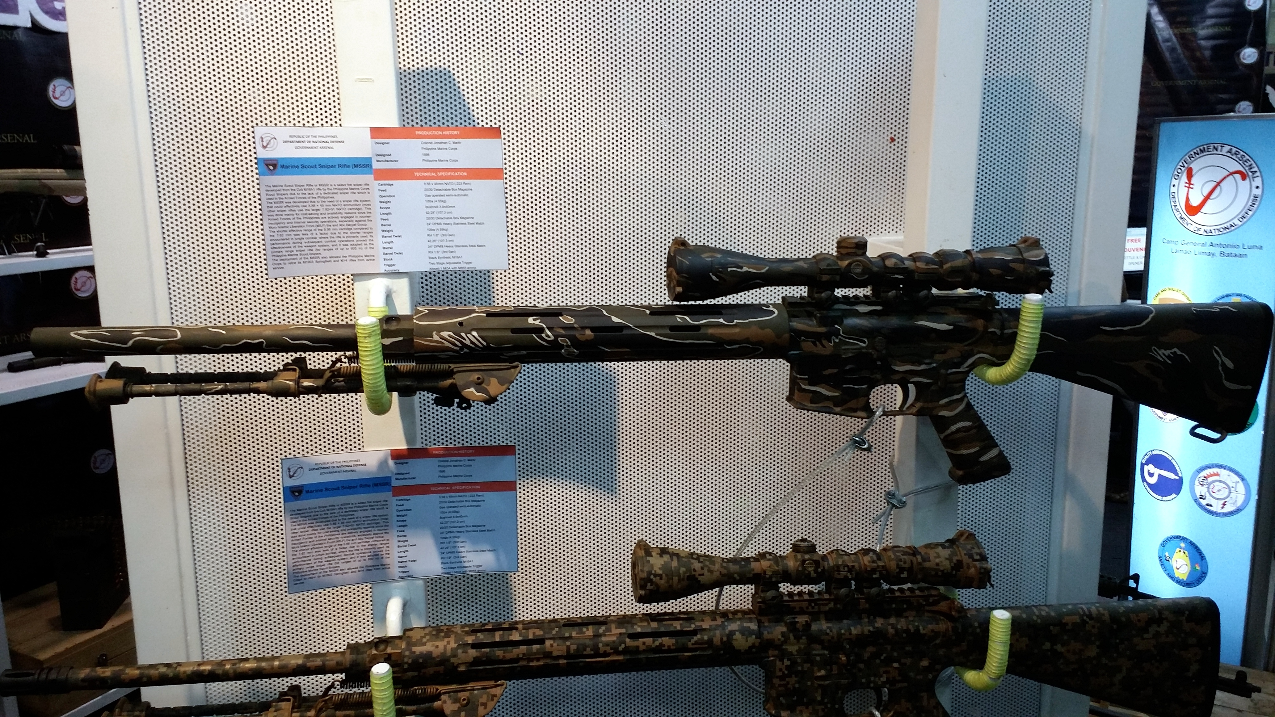 A version of the Marine Scout Sniper Rifle (MSSR) by the Government Arsenal. The MSSR was originally designed by Col. Jonathan Martir of the Philippine Marine Corps (PMC) in 1996. This one features a 24" DPMS Heavy Stainless Steel (SS) barrel with a 1:8" twist, 2-stage Adjustable Trigger, Bipod and a Bushnell 3-9x40mm Scope. Caliber is 5.56 x 45 mm and weight is around 4.55 kg.